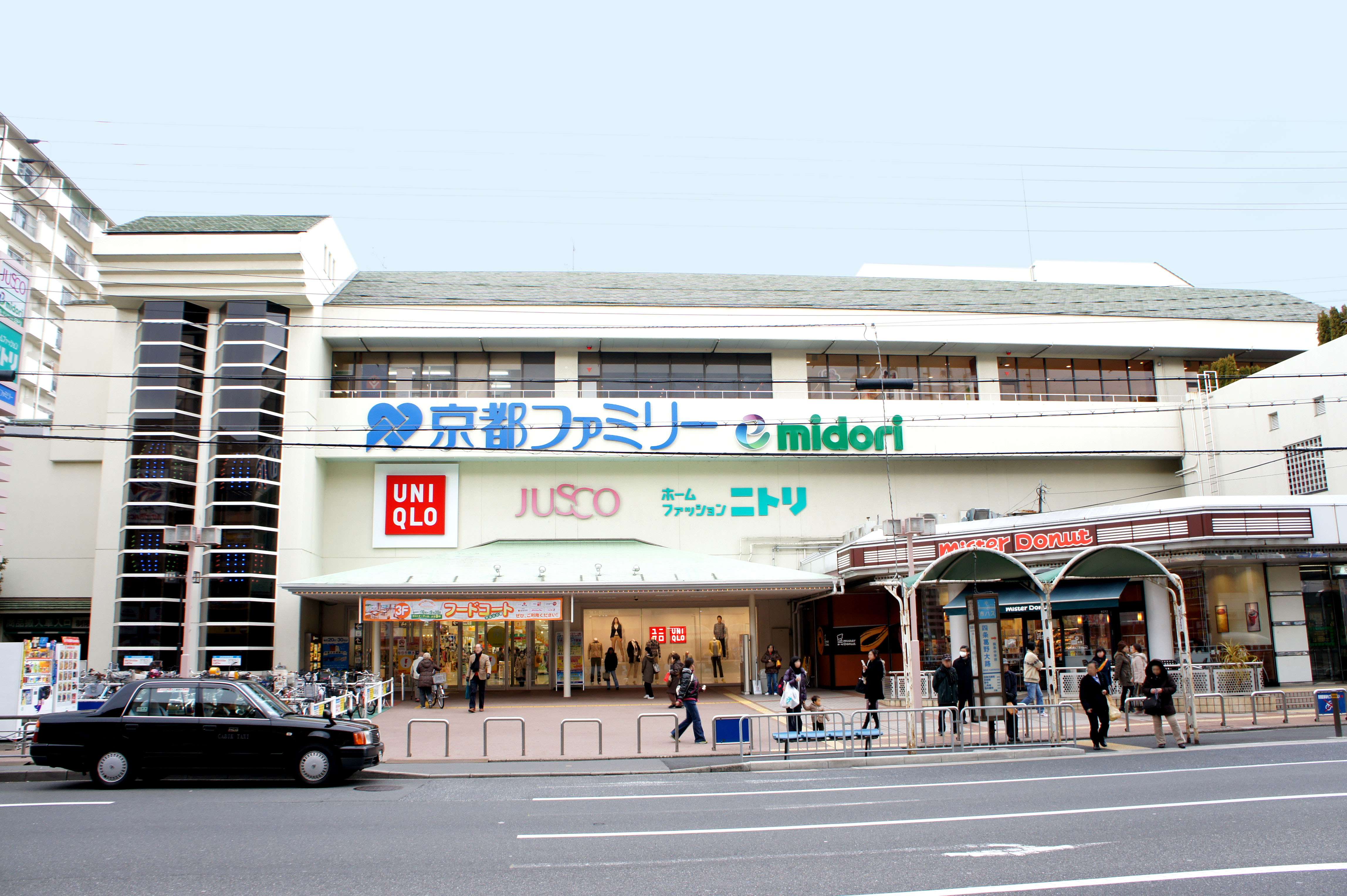 Kyoto Family,1-1 Yamanouchi-Ikejiricho Ukyo-ku Kyoto-City Kyoto Japan.